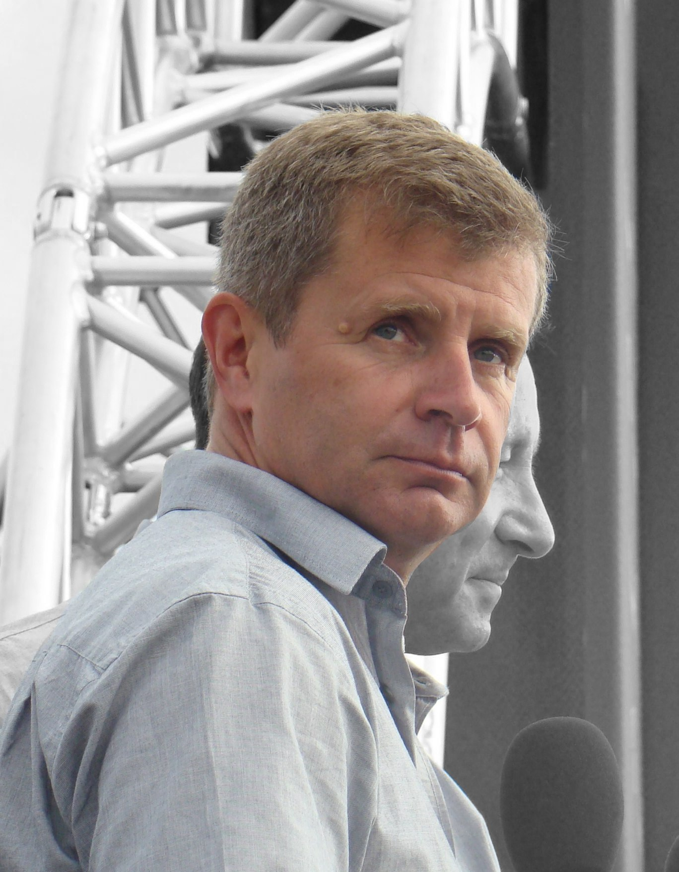 Steve Jones, British airline pilot and an aerobatics pilot competing in the Red Bull Air Race World Series